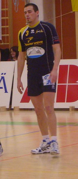 Daniel Koncal in SM league game in 2008 season